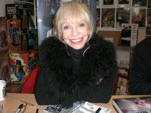 Katy Manning at The Television & Movie Store, Norwich, England on 17 January 2009.